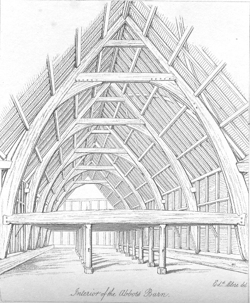 Wigmore Grange, Herefordshire by Edward Blore and engraved by John le Keux. Abbotts cruck framed Tithe Barn Arch Camb Vol 2 1872 pg286b